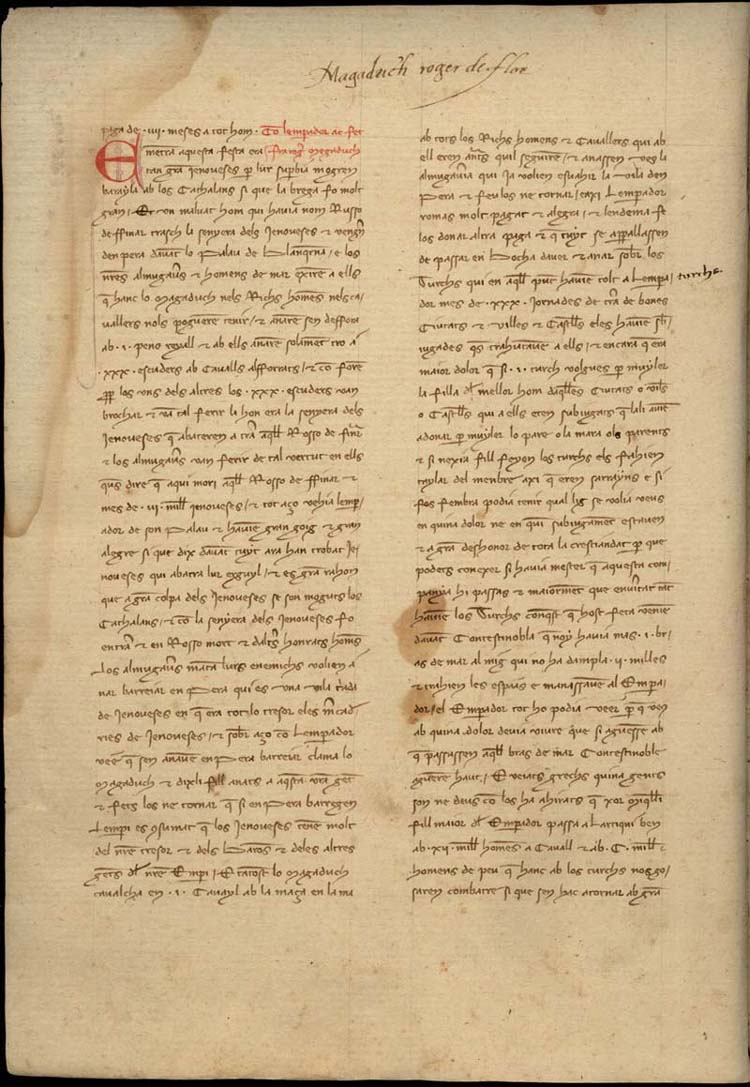 Roger de Flor as Megas Doux